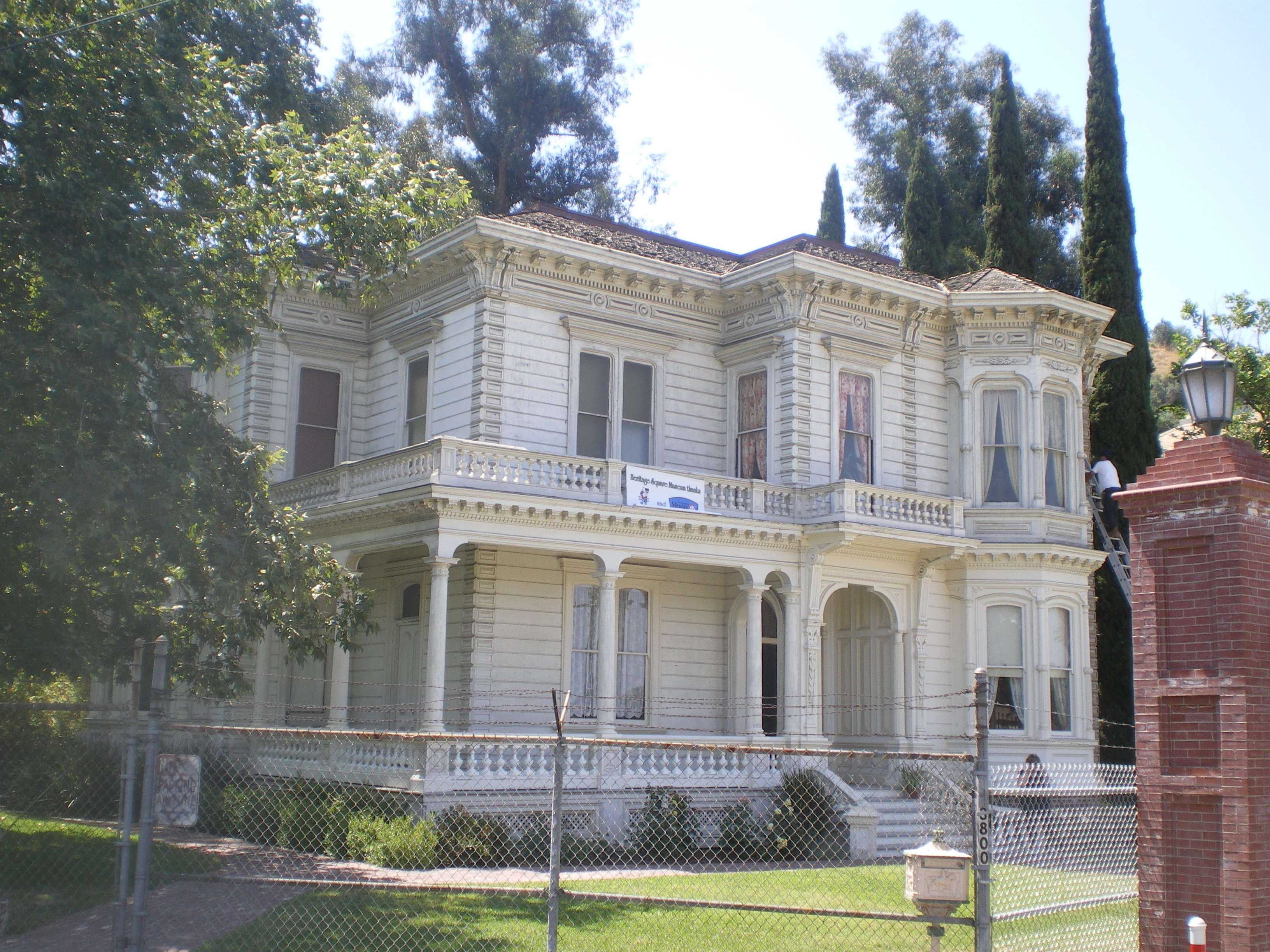 The Mount Pleasant House — at Heritage Square Museum, north-central Los Angeles, California. The 1876 Victorian Italianate style house is a Los Angeles Historic-Cultural Monument, and on the National Register of Historic Places. Now located at the open air Heritage Square Museum (with 7 other historic buildings), in the Arroyo Seco (3800 Homer Street), Los Angeles.